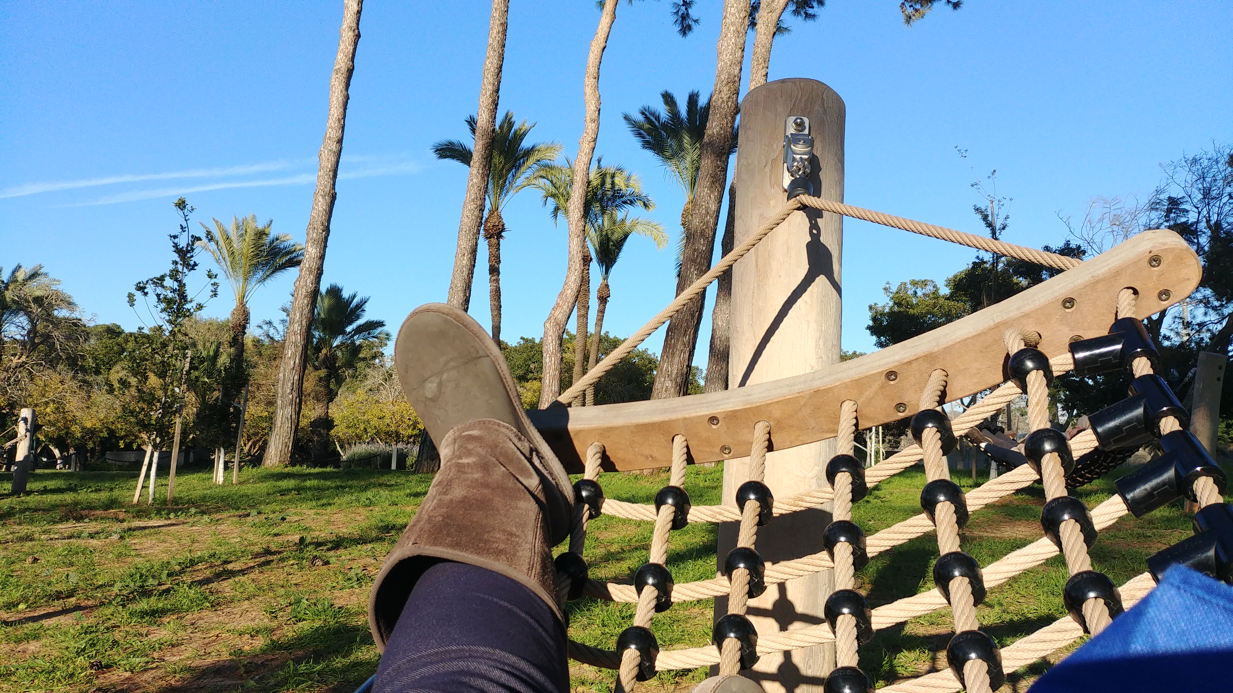 Hammock in Ramat Gan National Park, Israel